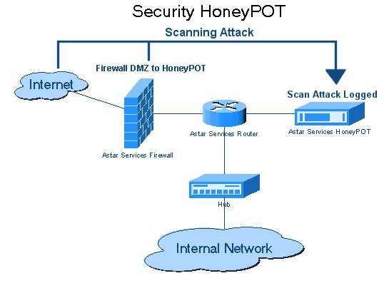 Honeypot diagram to help understand the topic